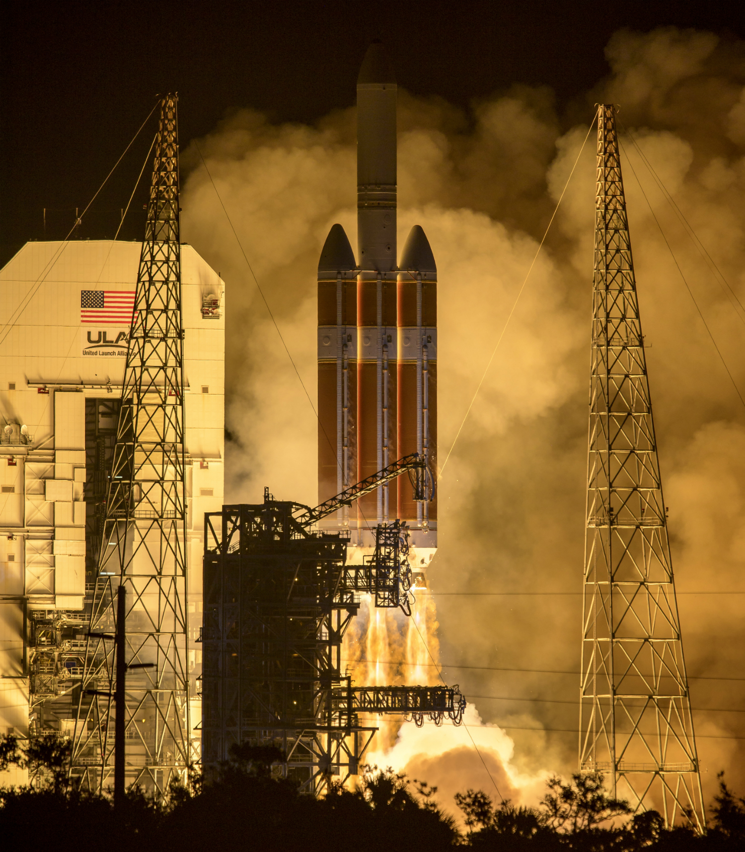 This image was taken when Delta IV heavy rocket launched Parker Solar probe.